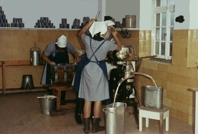 Reifensteiner Schule Wittgenstein